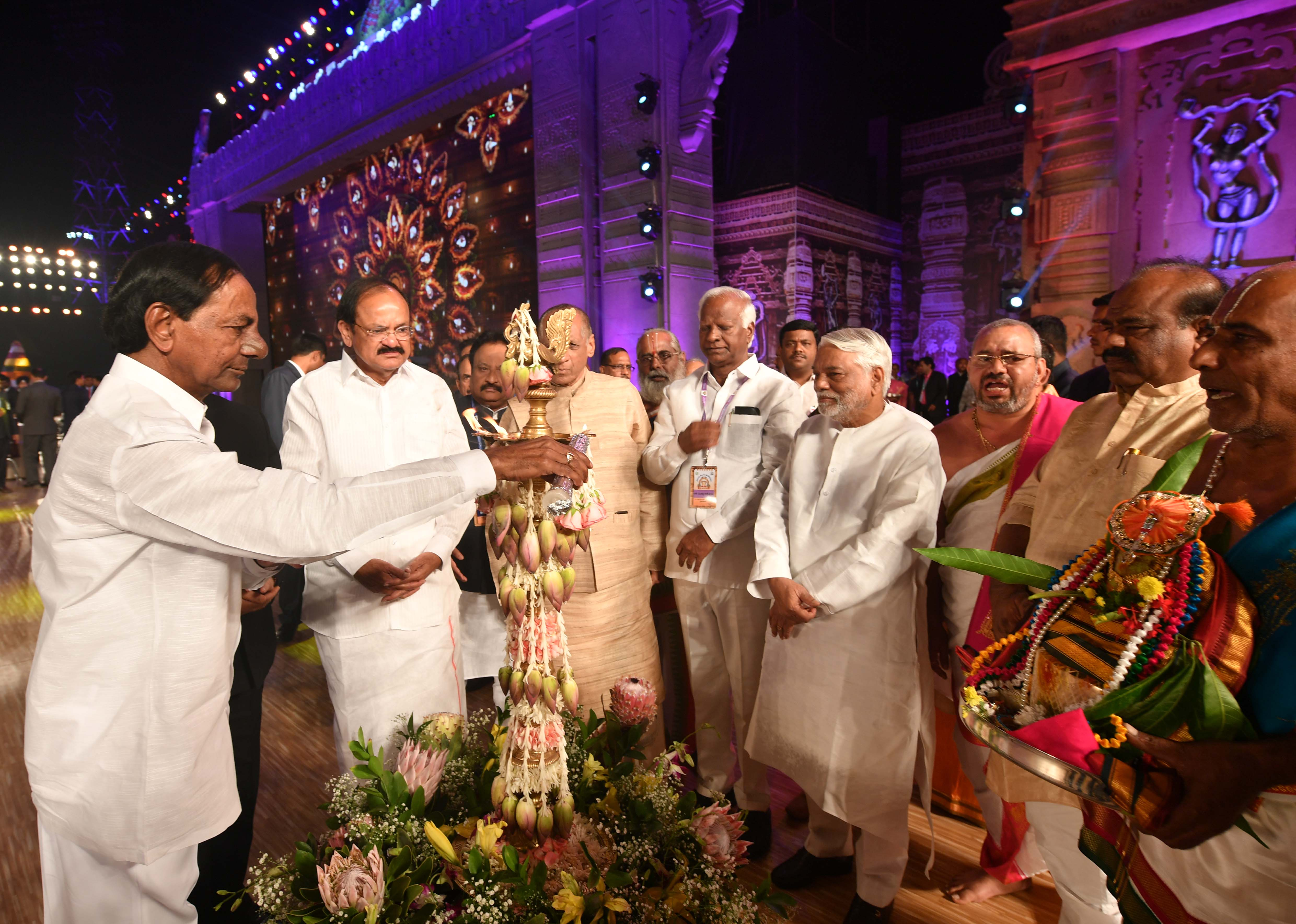 World Telugu Conference 2017 Opening Ceremony